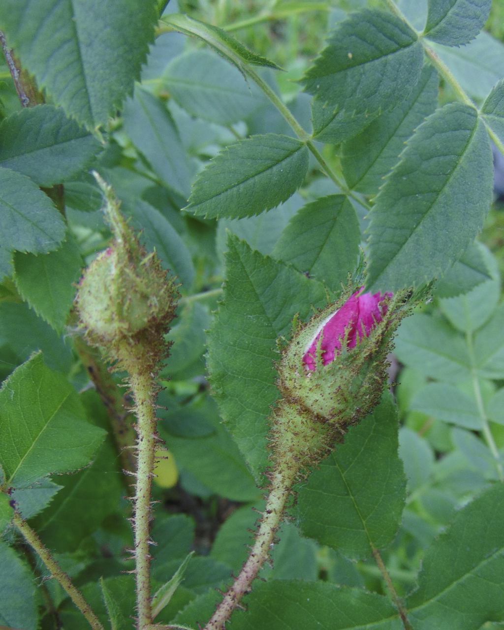 Jardin botanique de Montréal, Rosa 'Maréchal Davoust'